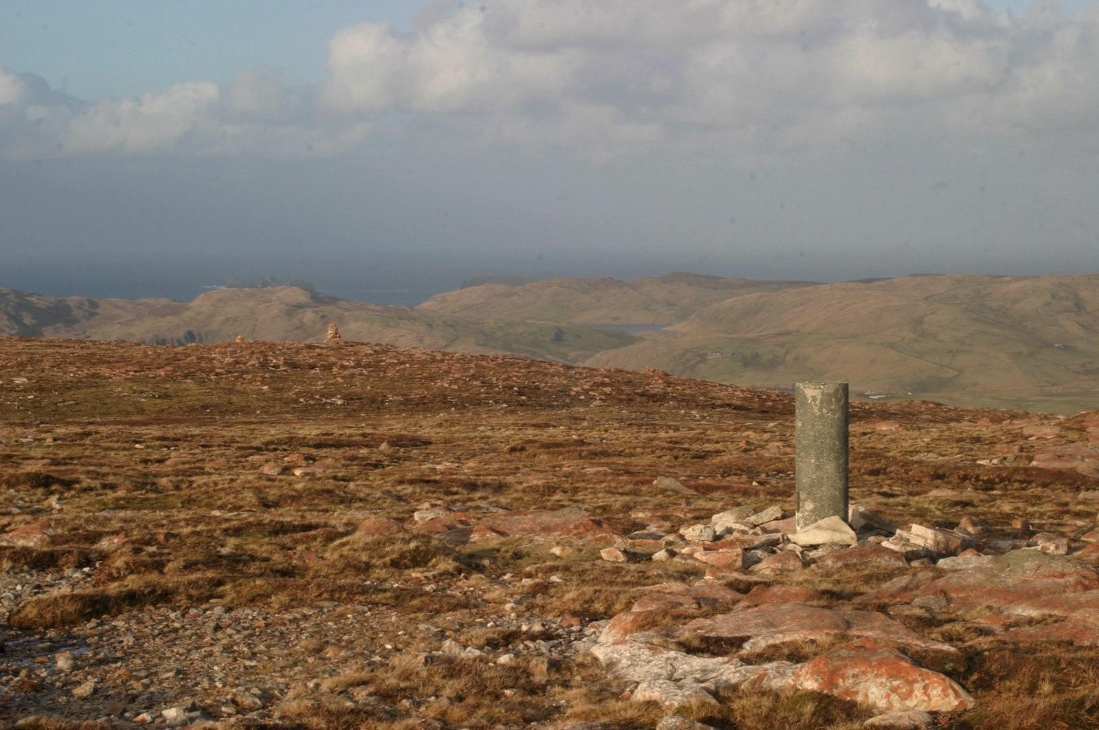 Trig point